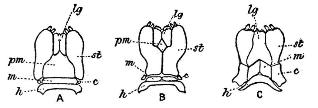 The Gnathochilarium or jaws of second pair of various Chilognatha. A, of Spirostreptus. B, of Julus. C, of Glomeris. c, cardo. m, mentum. st, stipes. pm, promentum. lg, linguae. h, hypo stoma.